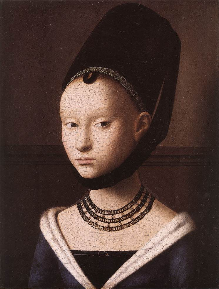 Portrrit of Young Girl. 29 × 22.5 cm, Oil on wood. Gemaldegalerie, Berlin, Germany